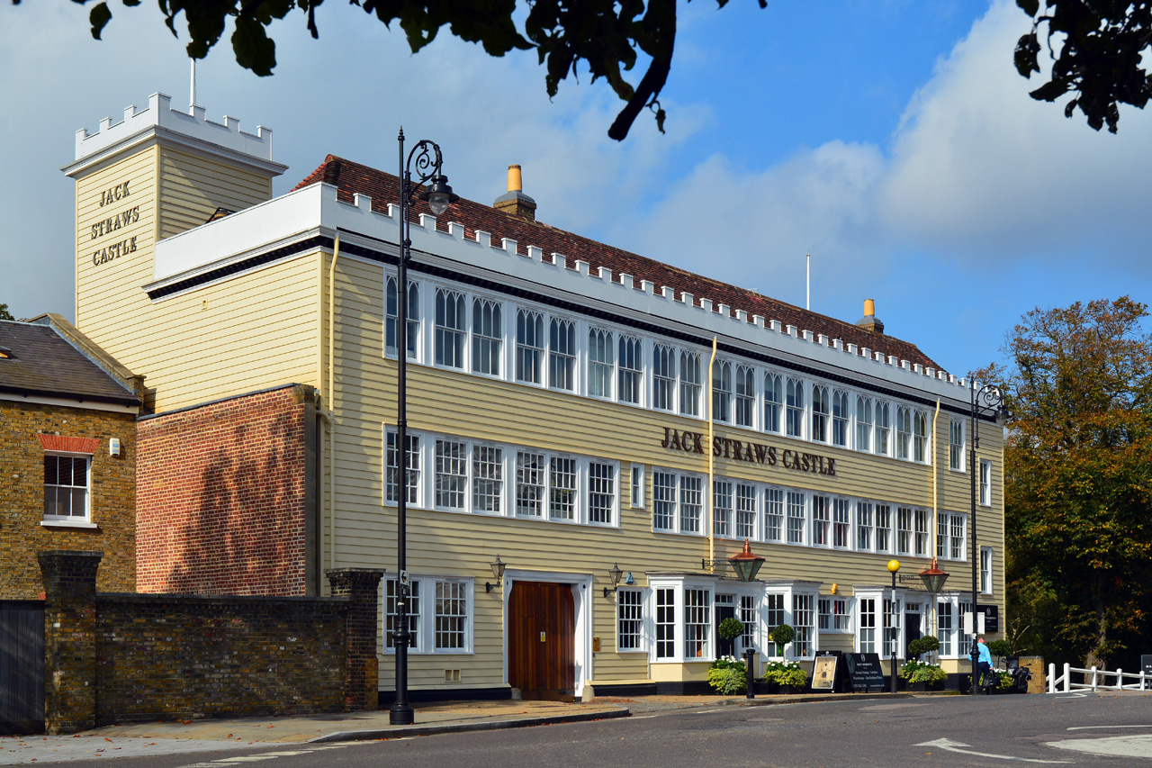 An exterior shot of the redeveloped-in-1965 pub Jack Straw's Castle, Hampstead, London